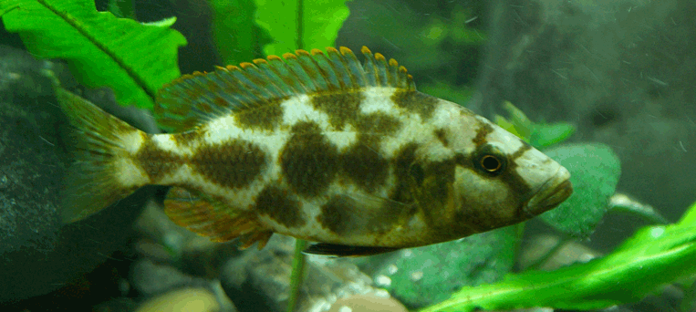 Juvenile Nimbochromis livingstonii in captivity.